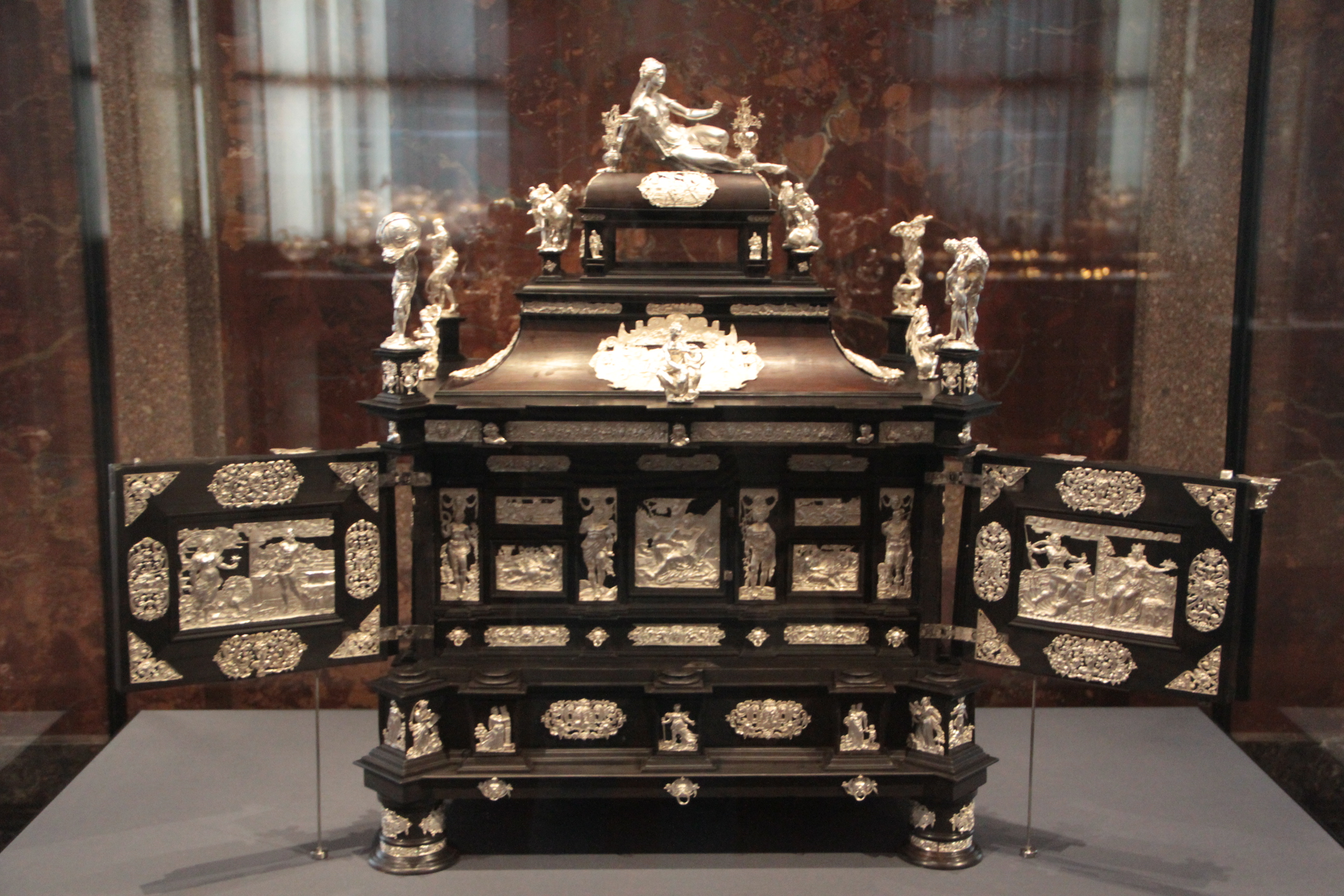 This type of finely constructed small furniture which can be seen as the precursor to our desk, probably comes from Spain. Numerous drawers and compartments are accessible when opened. A small drawer with writing utensils can be found in the upper section. The silver decoration offers an interesting contrast to the ebony. It follows no particular program, inspiration was gathered from different sources. Allegories, virtues, the arts and mythological themes are represented in the reliefs. The sitting figures represent parts of the earth, on the raised corners Hercules is shown accomplishing heroic deeds. Masks and festoons along with the handles were used as ornament.